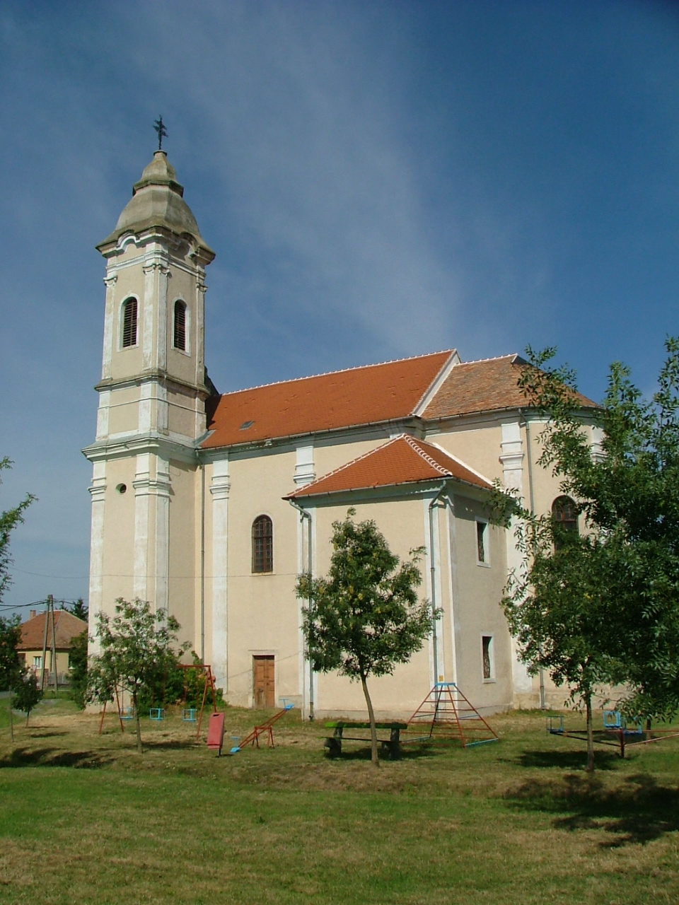 Vadosfa, King Ladislau roman catholic church This is a photo of a monument in Hungary, Identifier: 5169